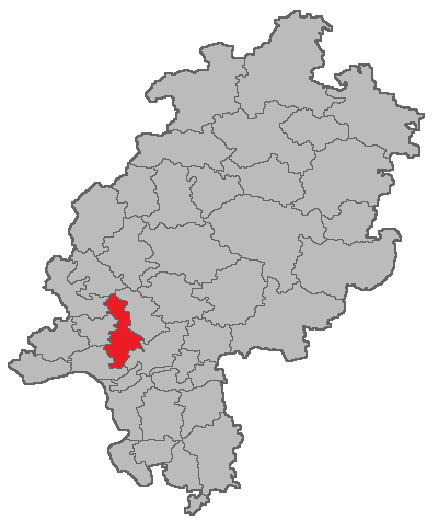 Map of the district court Königstein im Taunus in Hesse